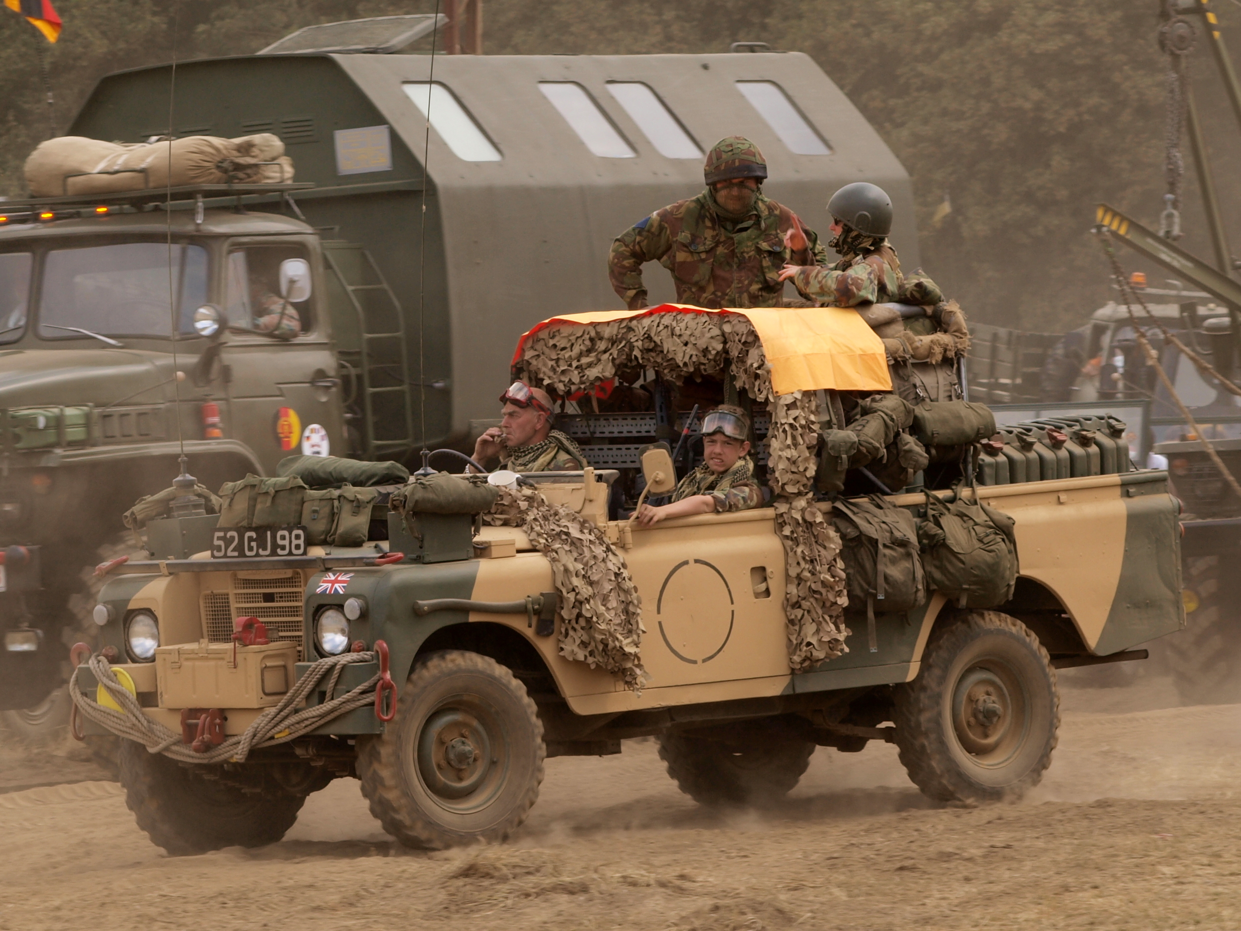 SAS Land Rover, licence registration '52 GJ98'.